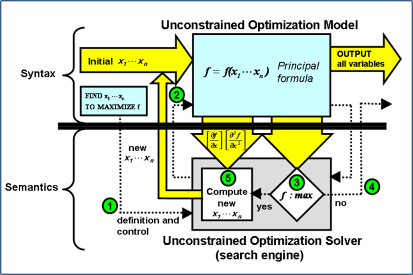 This is a syntax/semantics profile of an iterative MetaCalculus Unconstrained Optimization holon process.